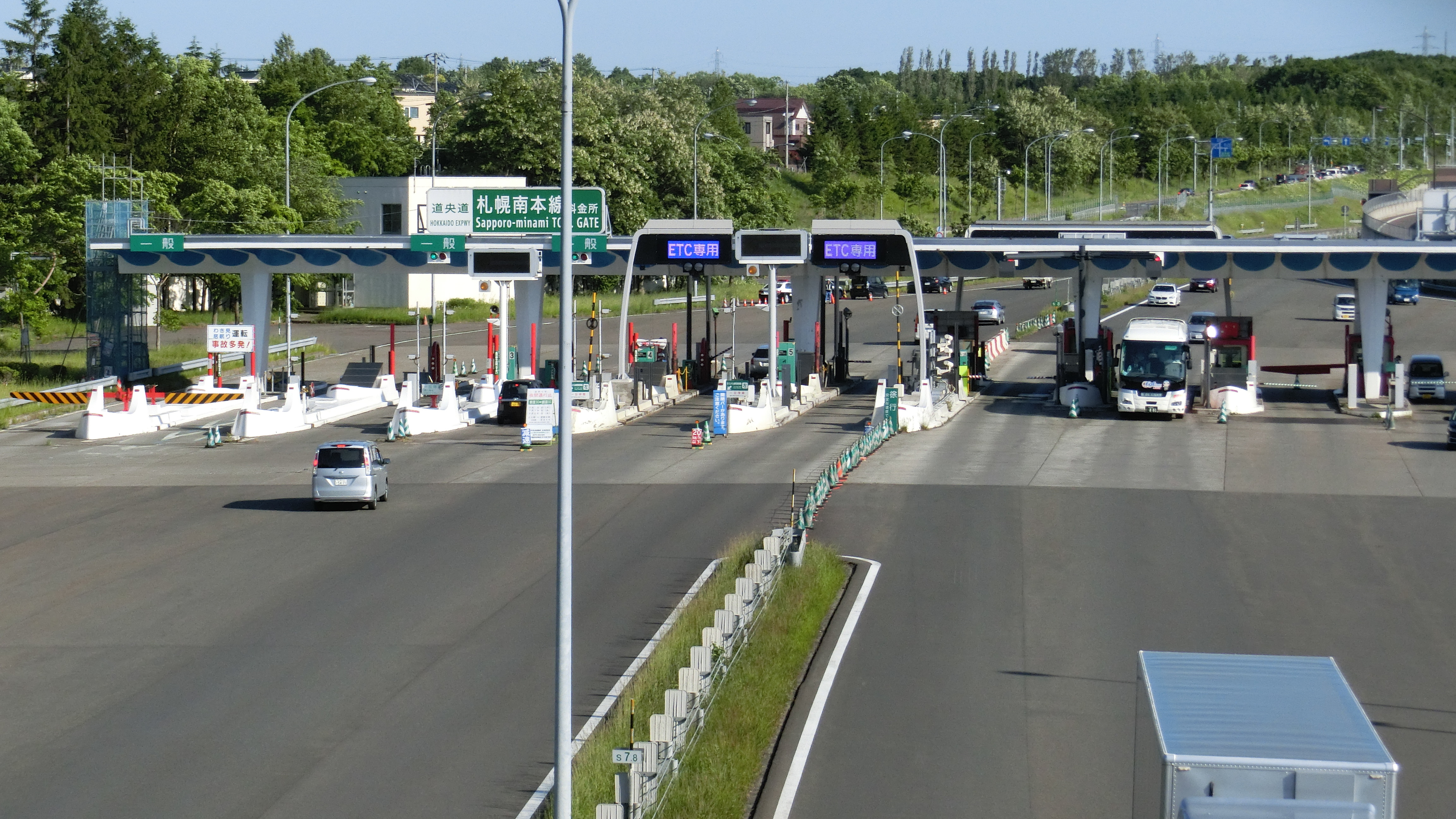 Sapporo Minami Toll Gate located in Kami-Nopporo, Atsubetsu Ward, Sapporo, Hokkaido